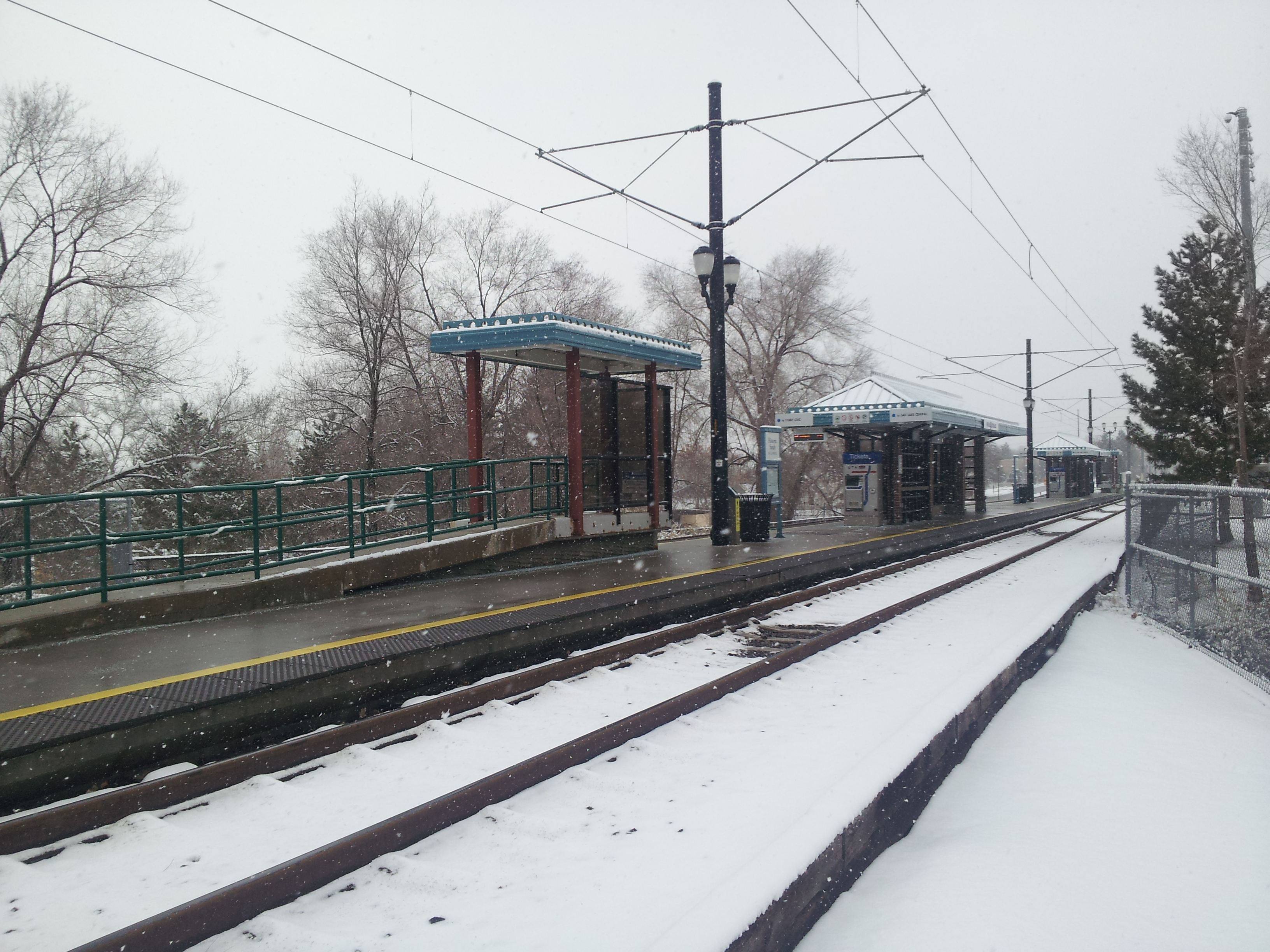 The Historic Sandy TRAX station in Sandy, Utah seen in snow.